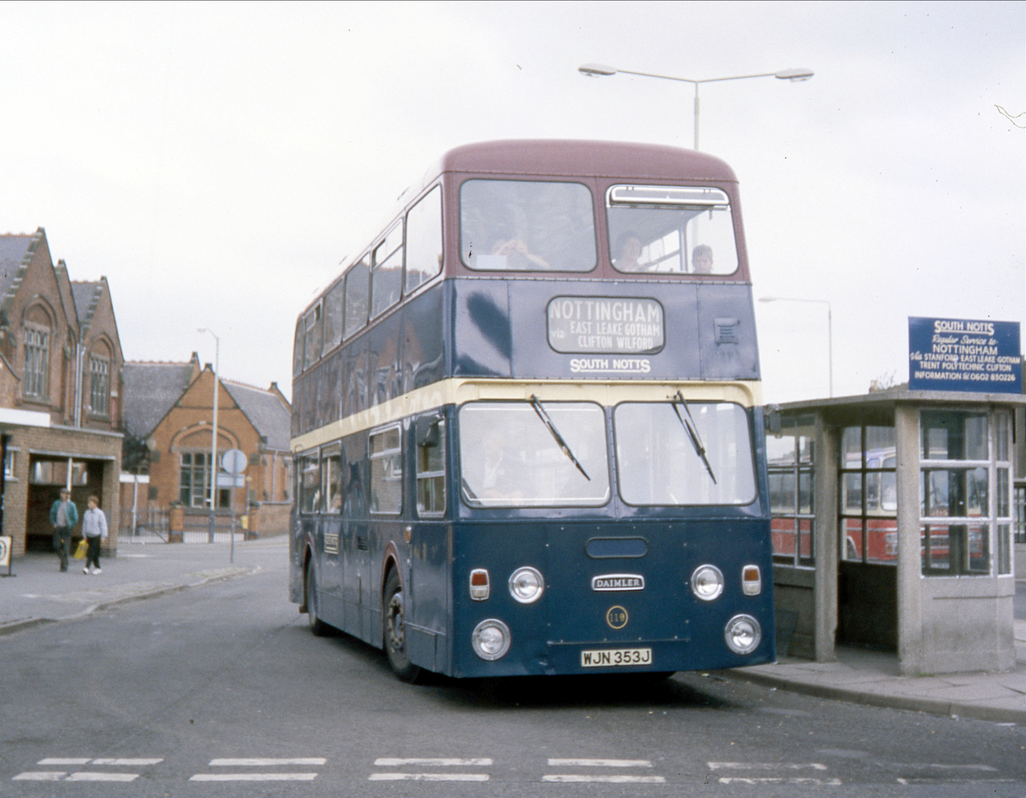 South Notts 119 (WJN 353J), a Daimler Fleetline with Northern Counties bodywork, in Loughborough Bus Station during summer 1989.